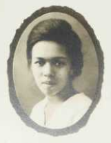 A young African-American woman, in an oval frame.